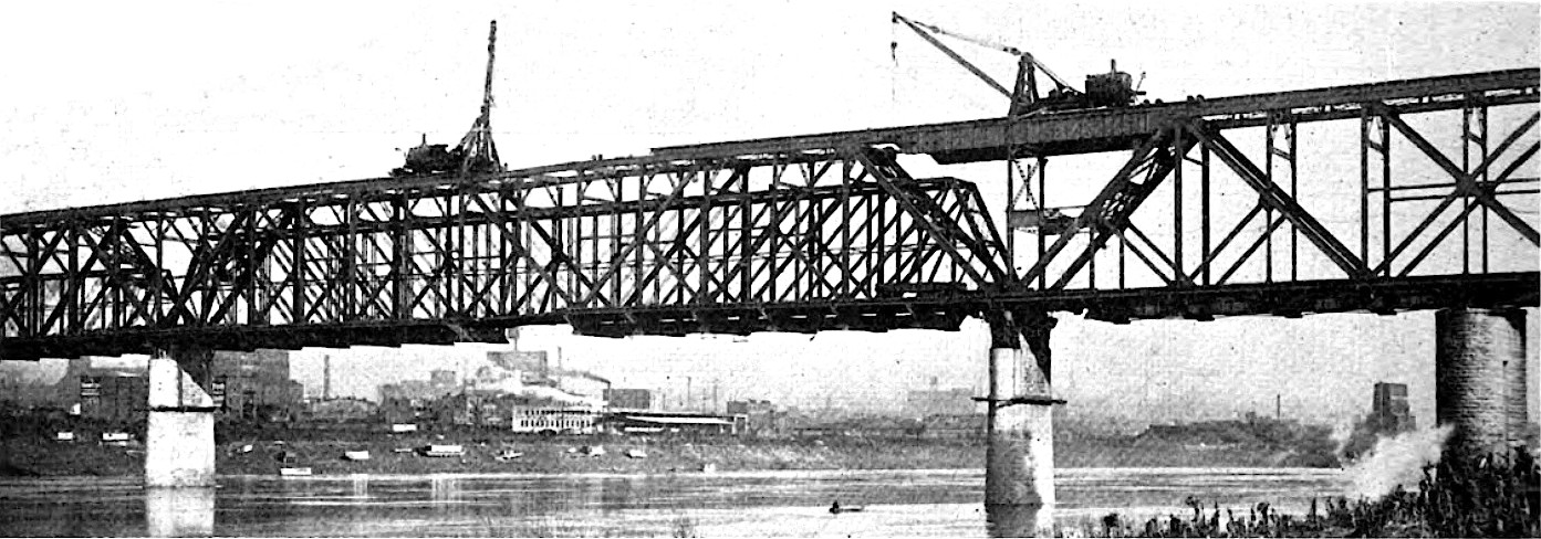 Construction of the Cincinnati Southern Bridge 1921